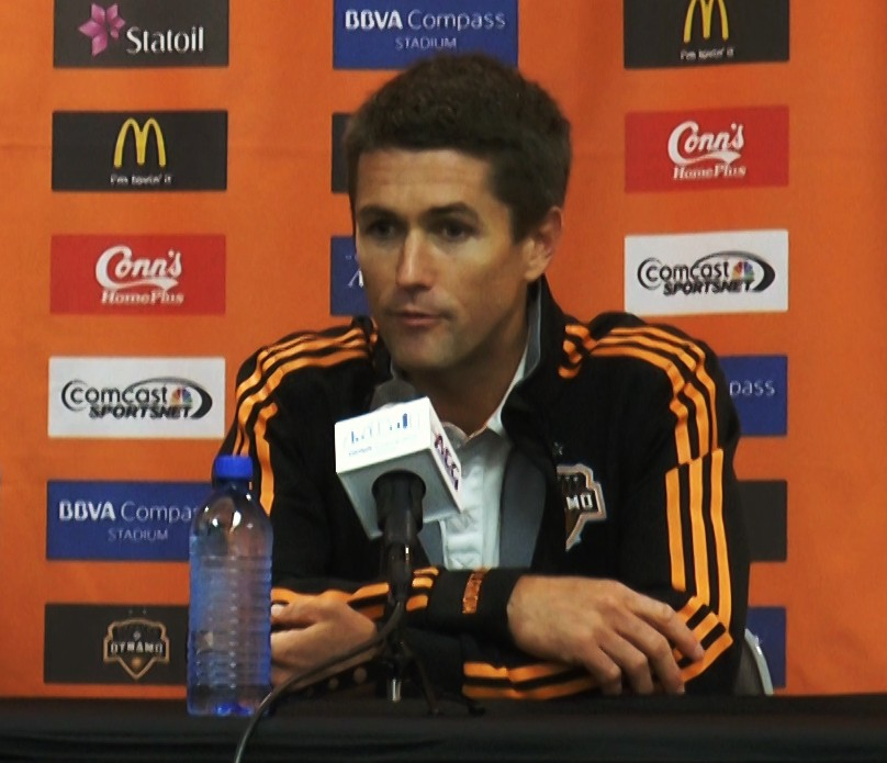 Wade Barrett, assistant coach of the Houston Dynamo, takes part in the post game press conference after Houston Dynamo’s 2-2 draw with New York Red Bulls in the first leg of the Eastern Conference semifinals at BBVA Compass Stadium on Sunday, November 3, 2013. Barrett was the man in charge as head coach Dominic Kinnear was previously suspended by the MLS Disciplinary Committee “for leaving his technical area and entering the field of play during the 89th minute of the playoff game against the [Montreal] Impact, which per league policy results in an automatic one-game suspension.”